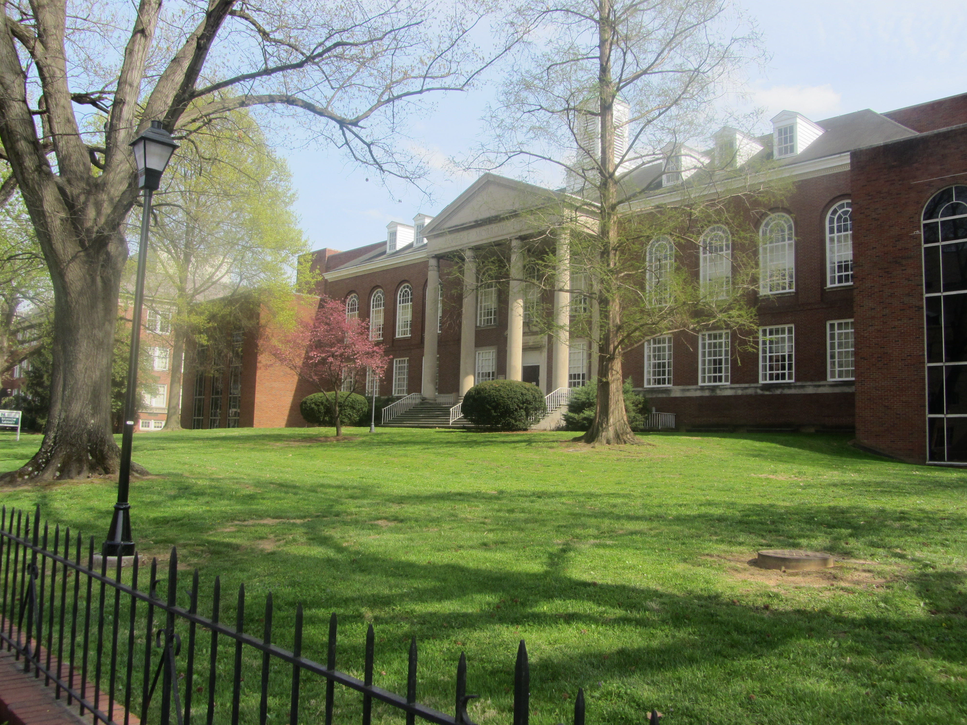 Library, on Marshall University campus - spring